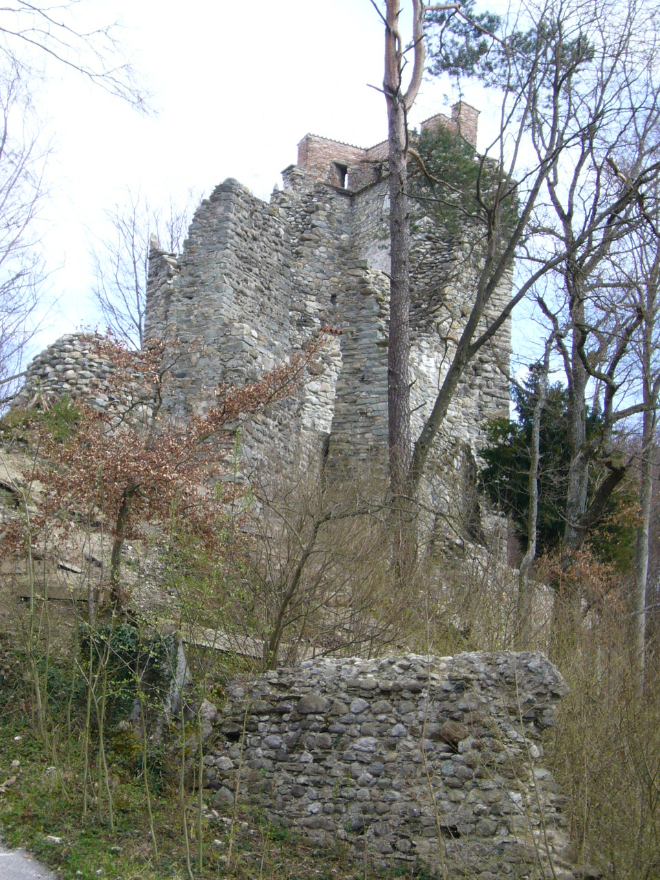 Remains of the castel Neuburg in Mammern, village in the canton of Thurgau, Switzerland. Picture taken by Peter Berger, April 7, 2007.